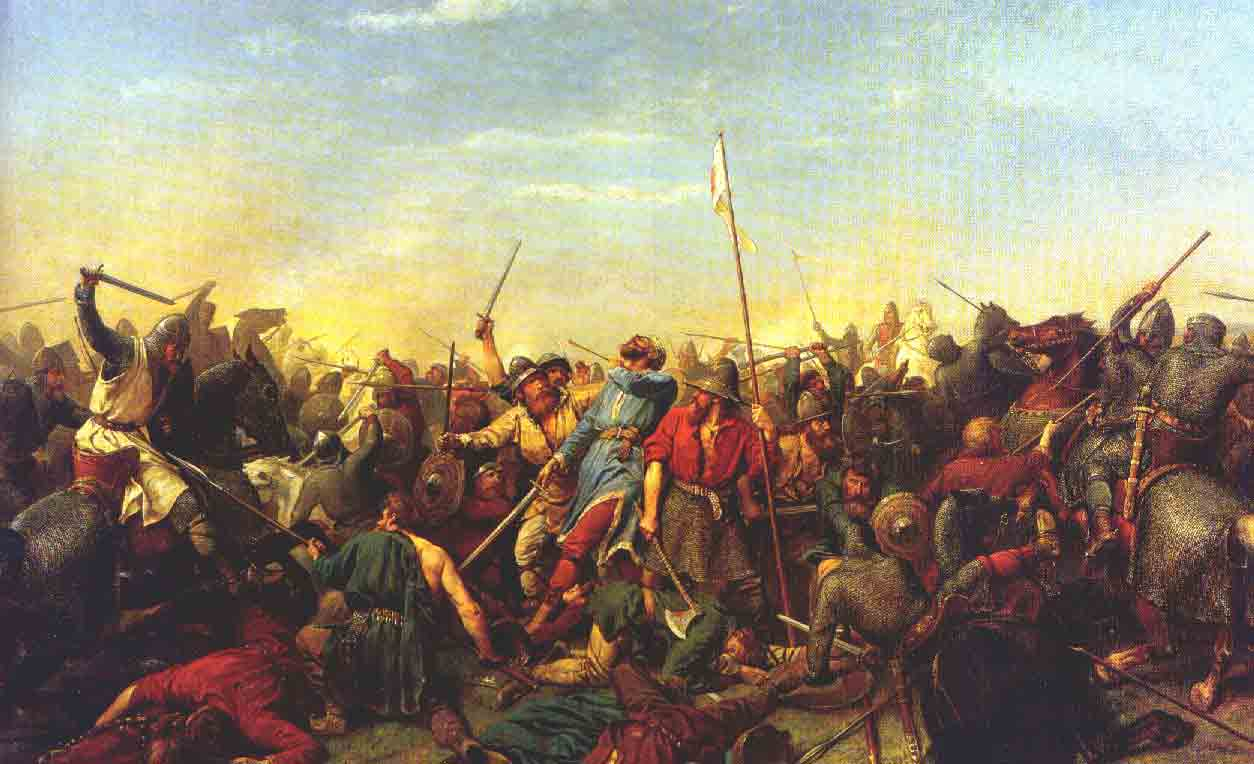 The Battle of Stamford Bridge.